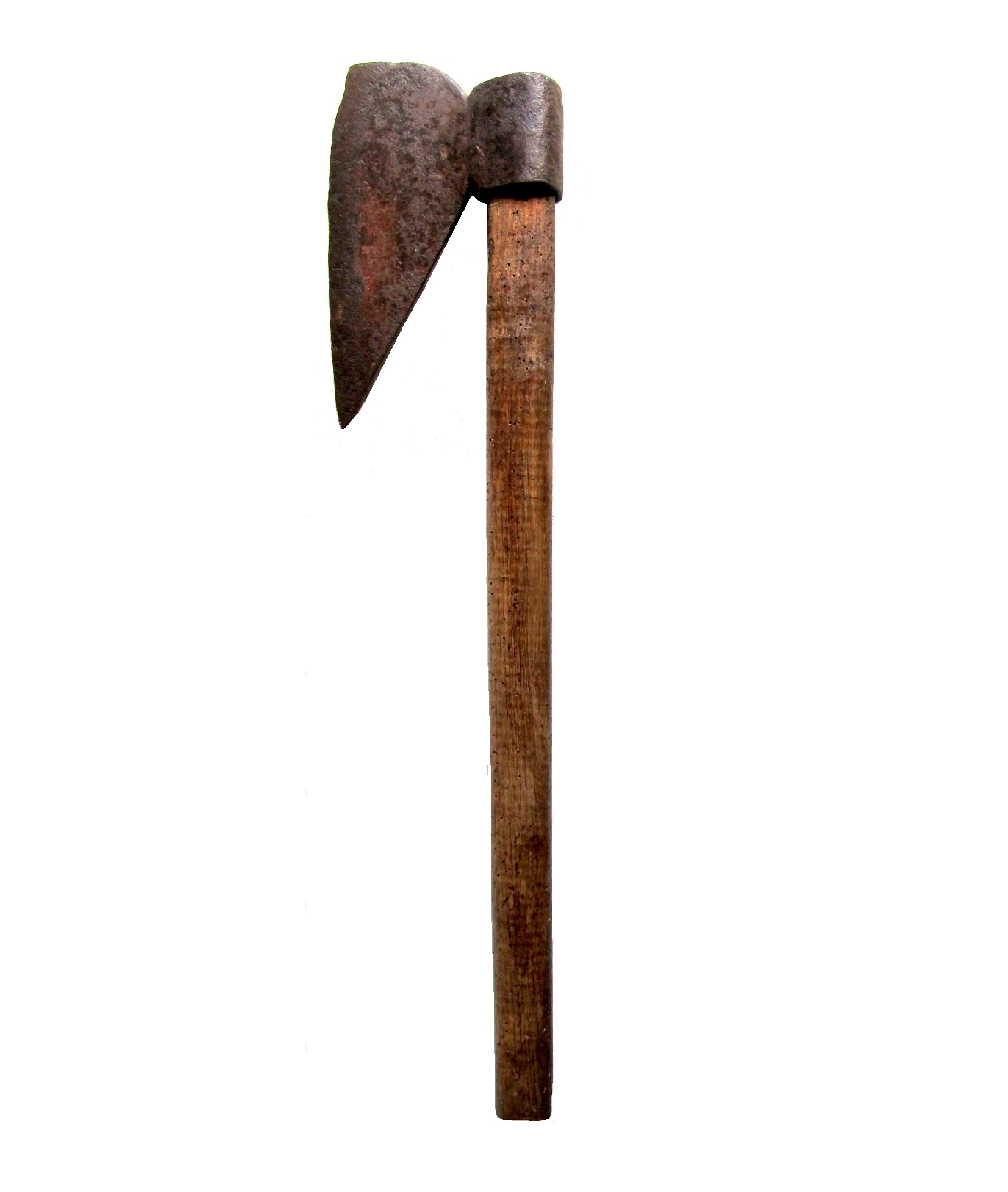 Tool of Elba Island